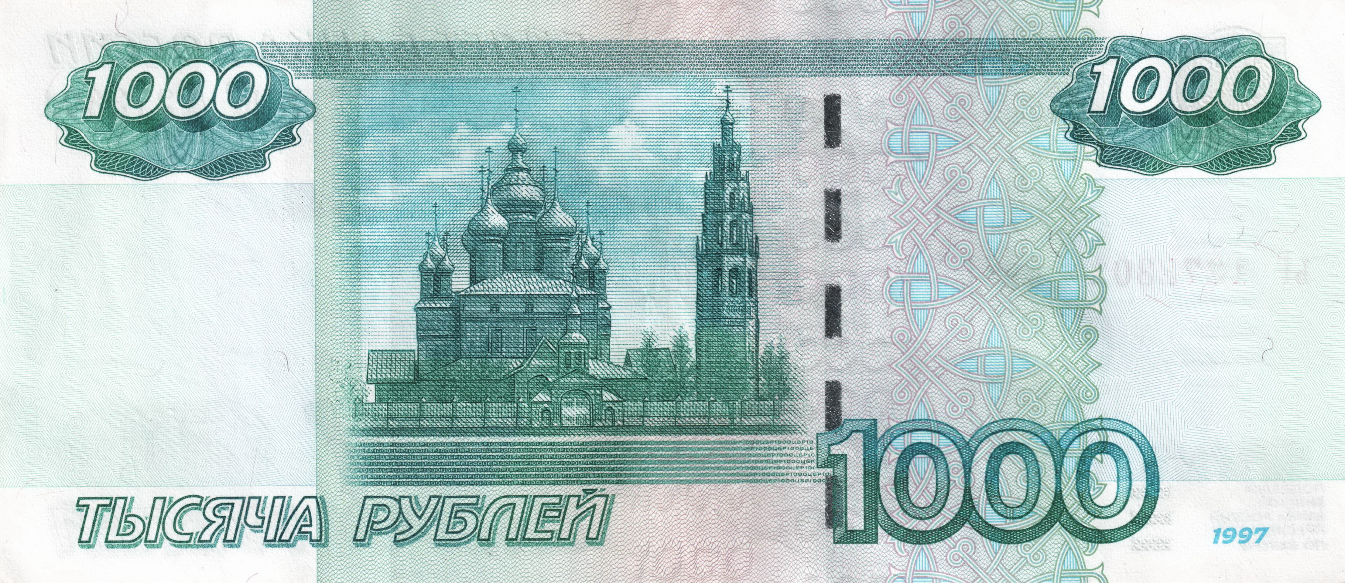 Russian banknote. 1000 rubles. Version of 2004 year. Back